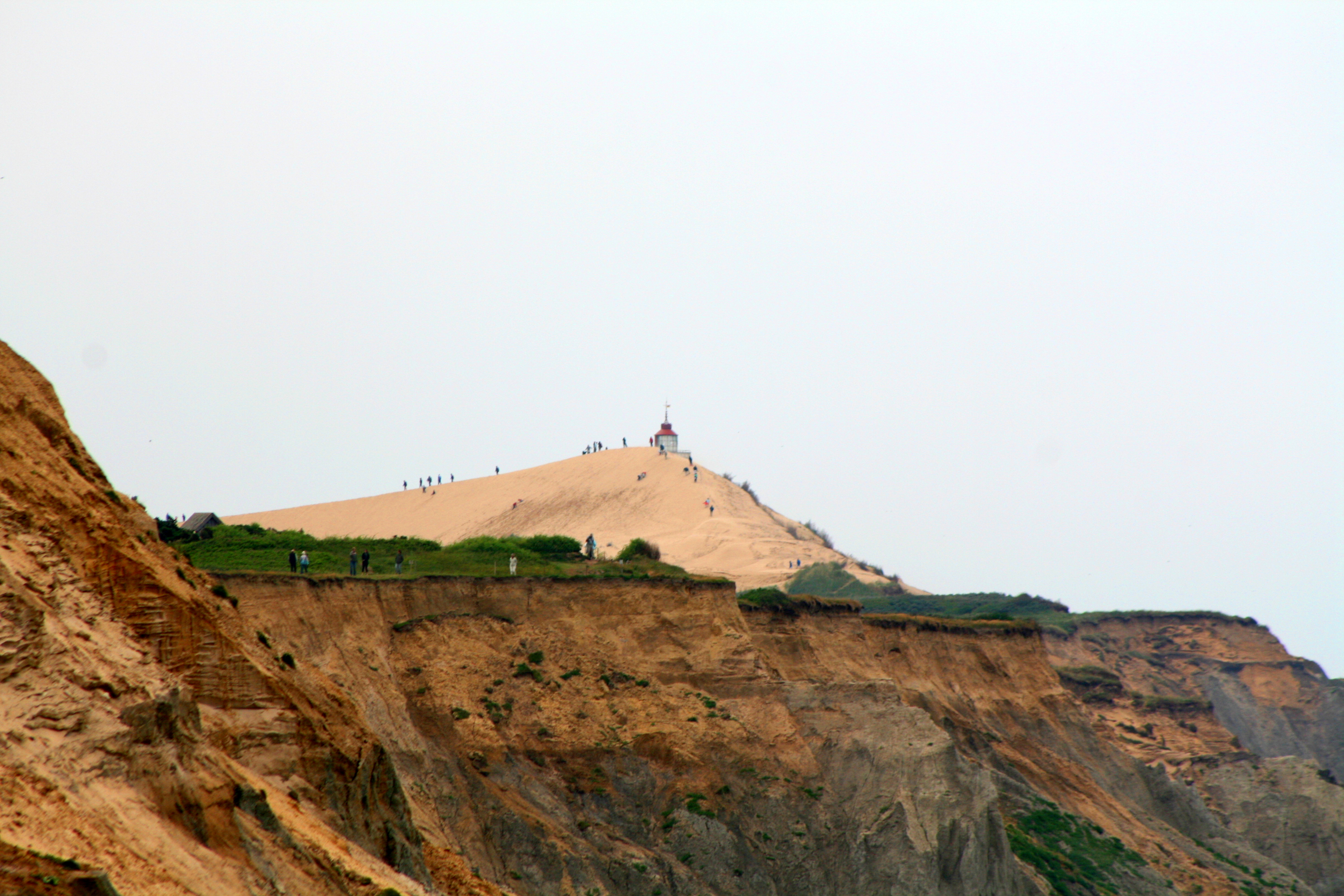 "Rubjerg Knude" near Lønstrup in Denmark seen from the beach